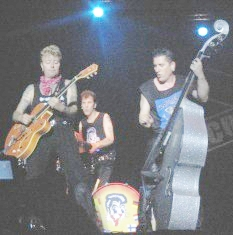 Modified by User:straycat101 - image lightened Contents 1 Source 2 Description of the image 3 Alternative versions 4 Licensing 5 Original upload log Source Original image: Image:Stray_cats_-_live_in_gijon.jpg, photograph taken by Arias. Description of the image A Stray Cats concert in GijÃ³n on July 24, 2004, as part of the "Crossroad Festival 2004." Alternative versions Image:Stray_cats_-_live_in_gijon.jpg